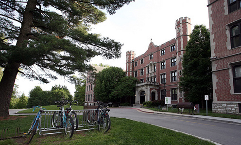 UMSL's Provincial House, located on South Campus